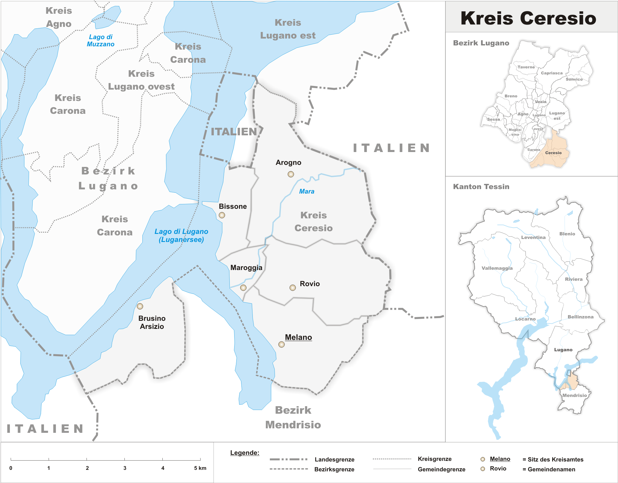 Municipalities in the circle of Ceresio